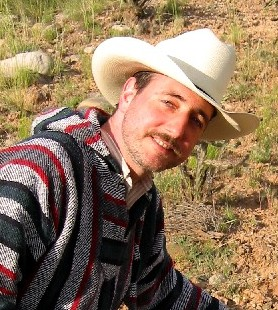 David Aldrich, new media content producer